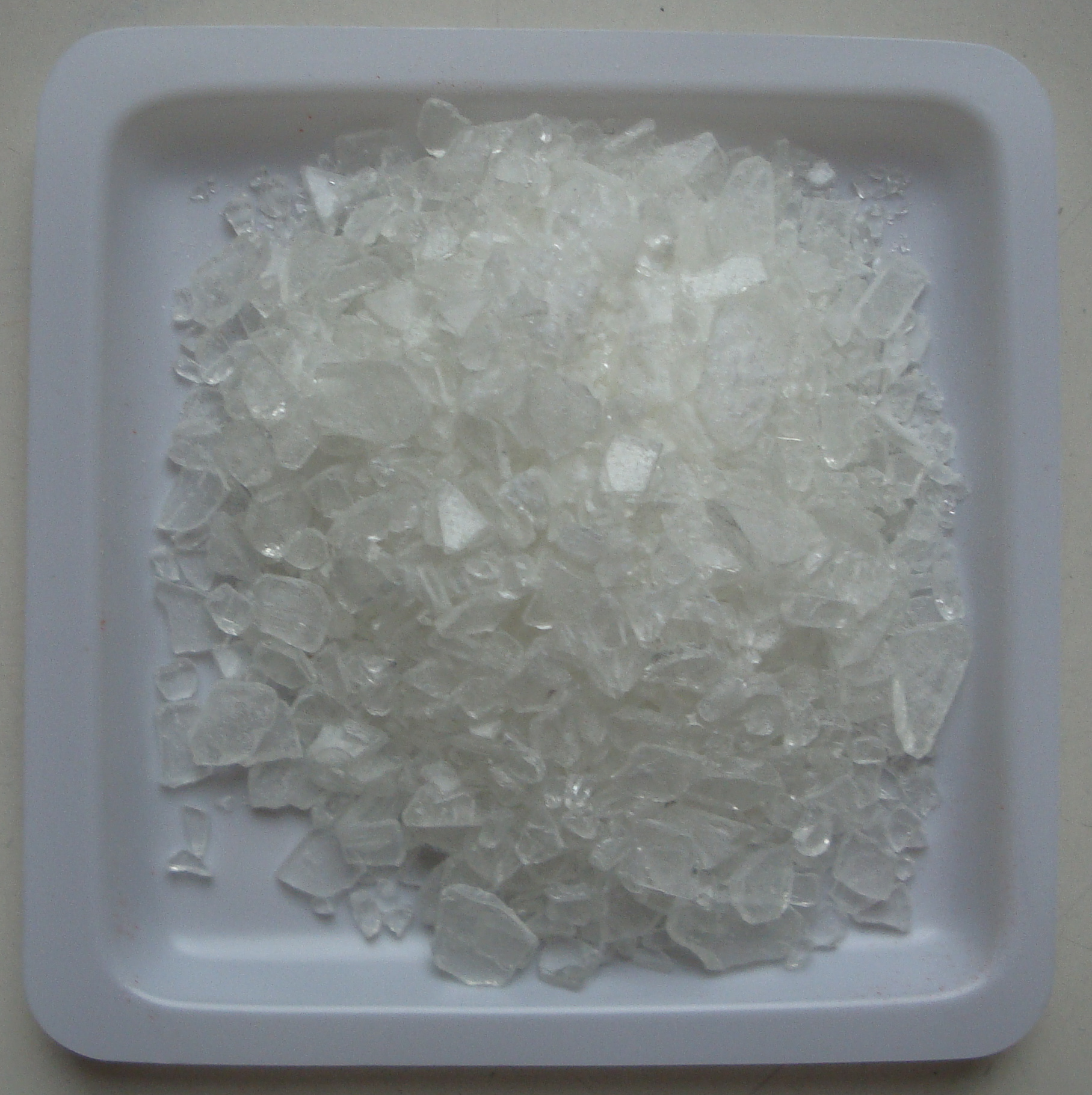 Polyester resin as raw material for powder coatings.